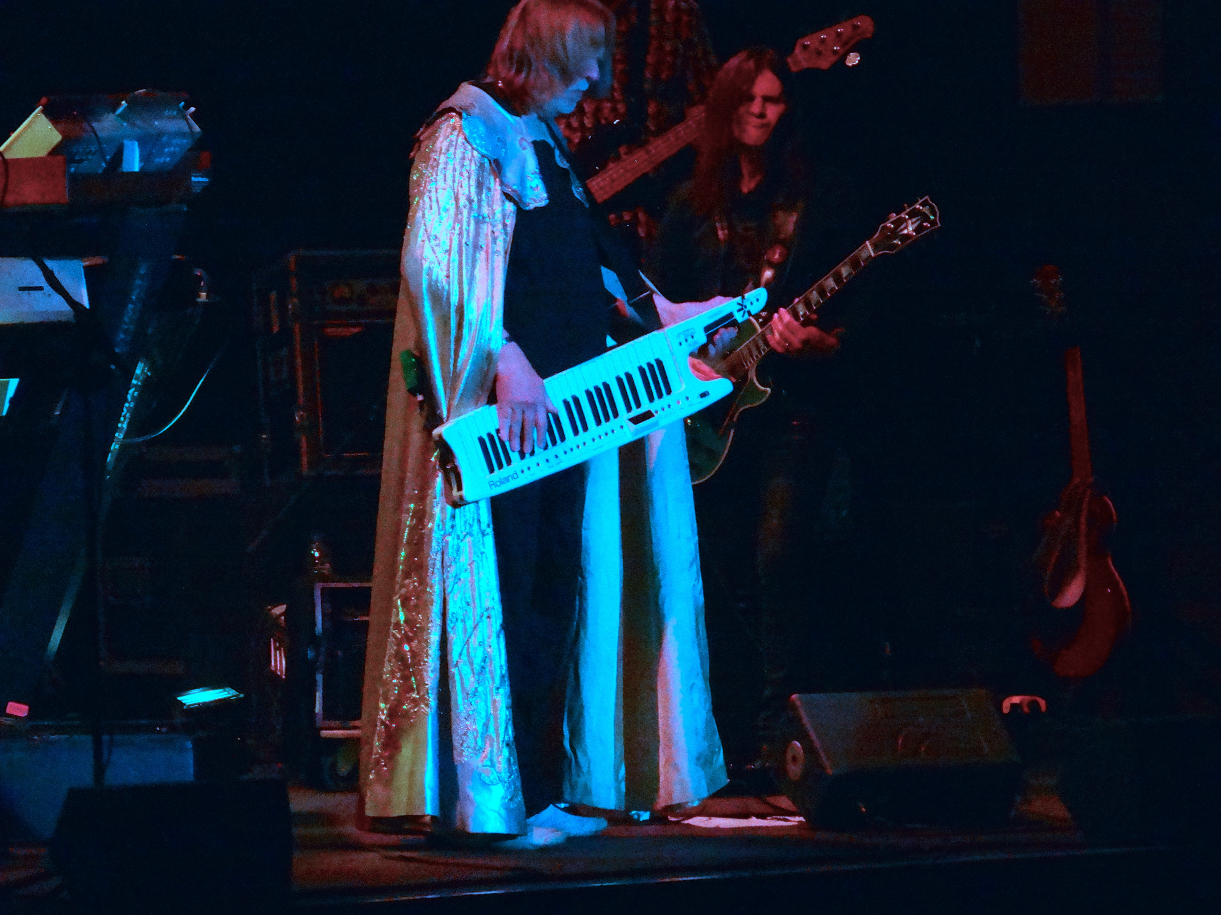 Rick Wakeman performing in concert on 3 May 2014.